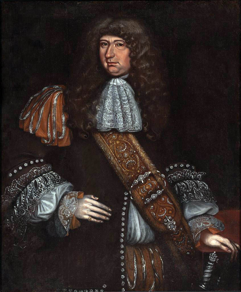 Portrait of a Man, probably Sir George Downing, 1st Baronet (1623–1684)